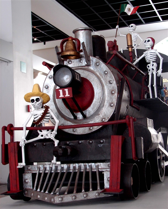 "The Train of History" sculpture for Day of the Dead at the Museo de Arte Popular